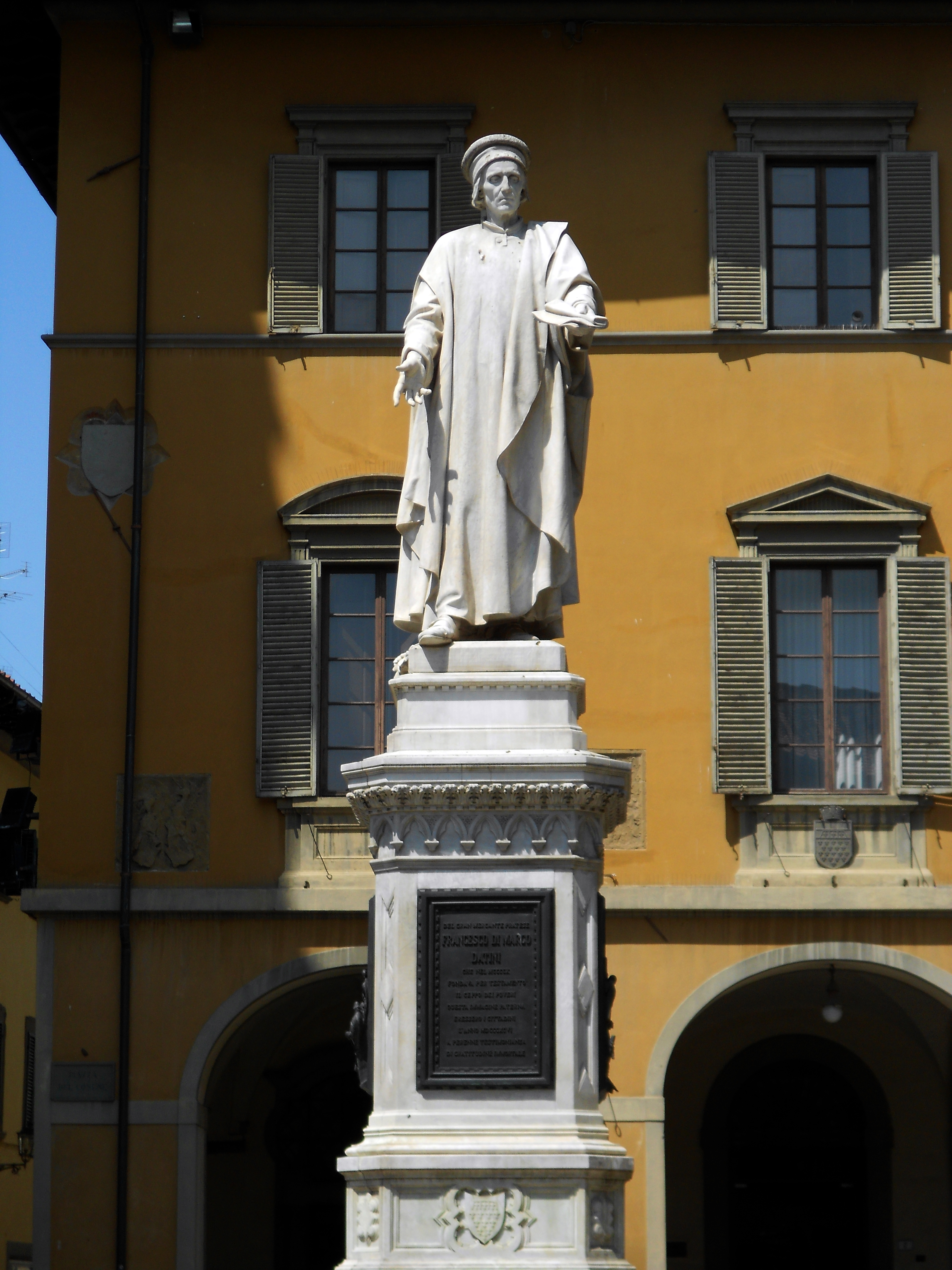 Statue of Francesco Datini near the Palazzo Pretorio in Prato, Tuscany, Italy